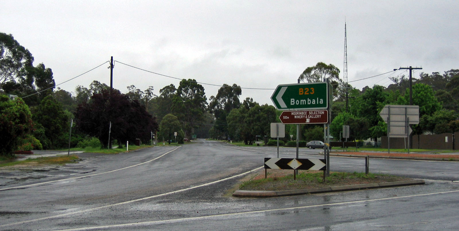 The start of Monaro Highway at Cann River, where it leaves the Princes Highway.